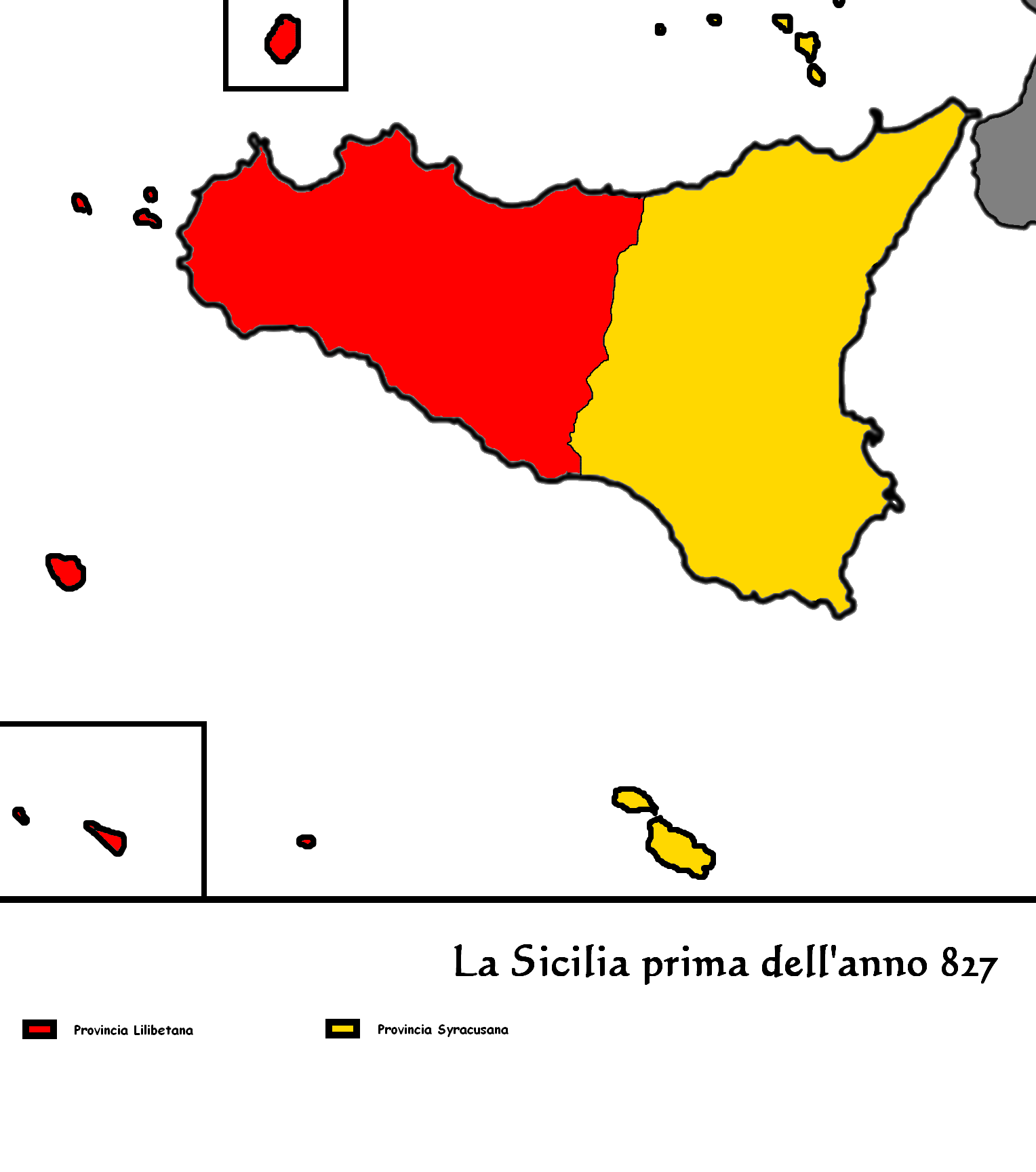 Administrative Map of Sicily during the Eastern Roman Empire, when Syracuse was the capital of the Roman Empire. Source: Michele Amari, Storia dei Musulmani di Sicilia, 1854 vol I